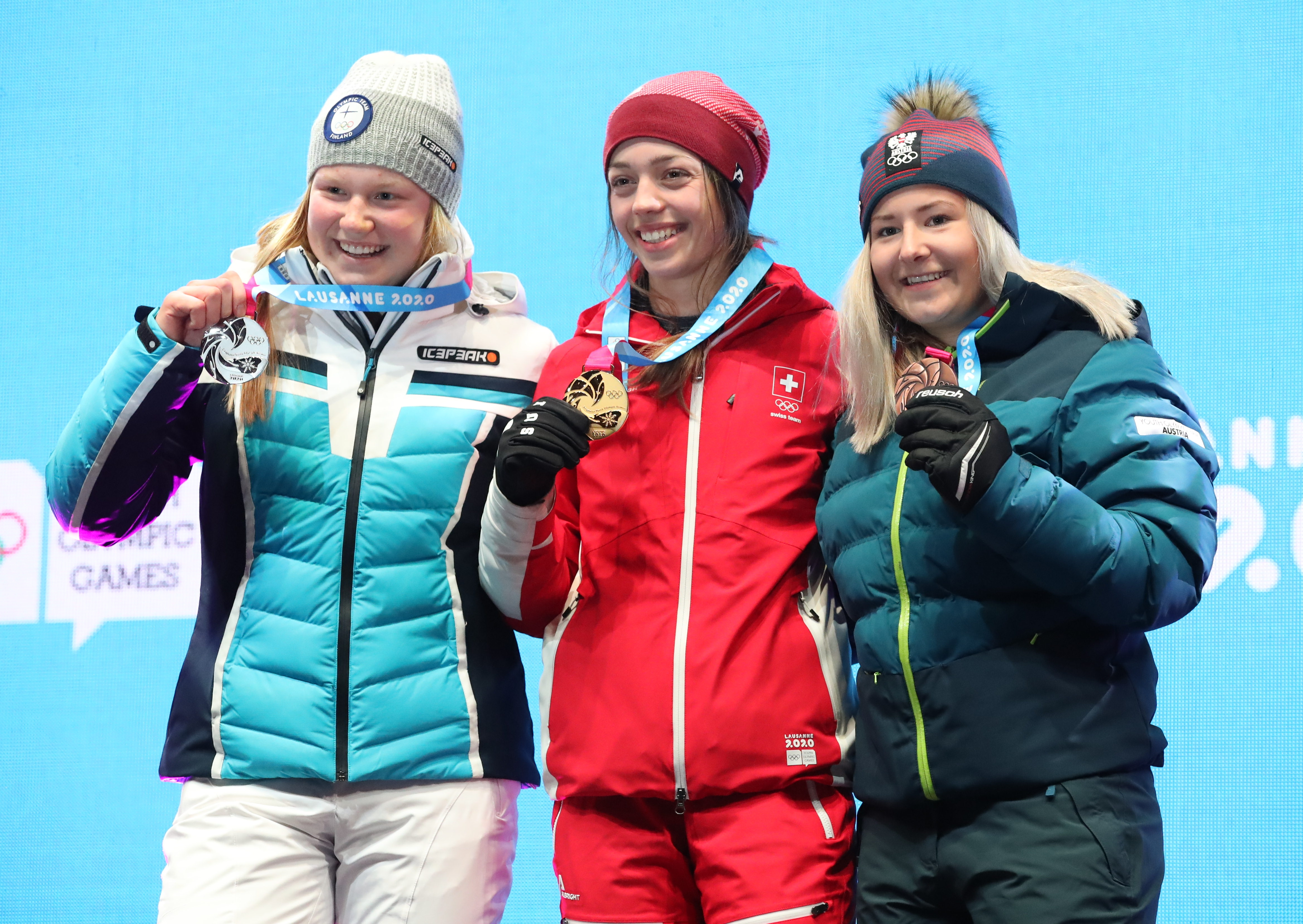 Medal Ceremony Day 3, 2020 Winter Youth Olympics in Lausanne